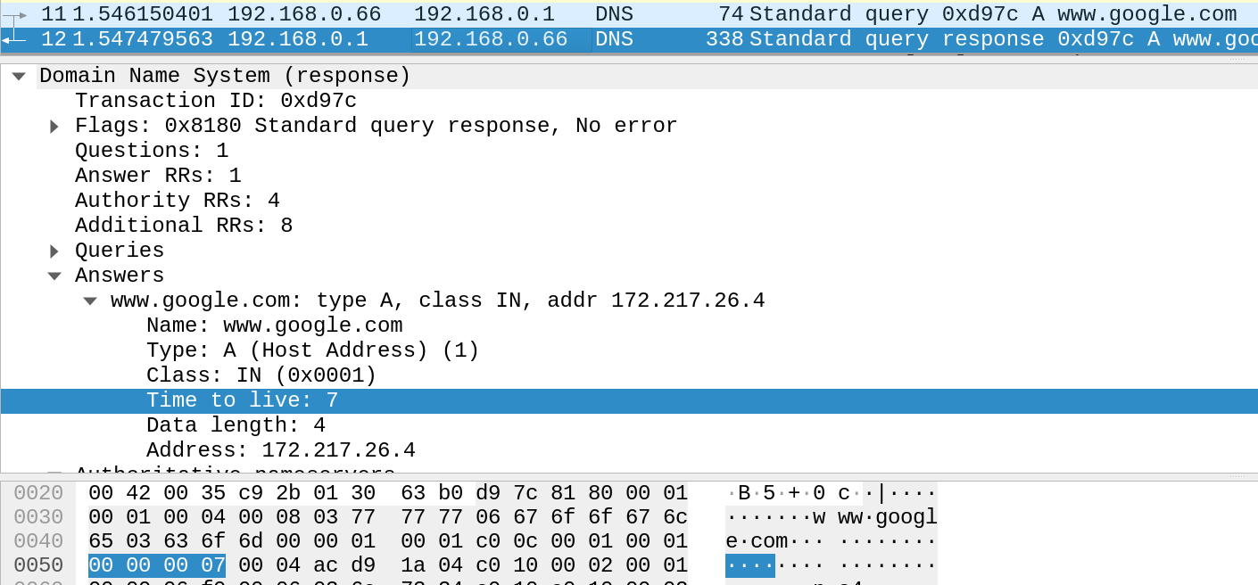 TTL of a DNS answer resolving , seen in Ubuntu Linux Wireshark